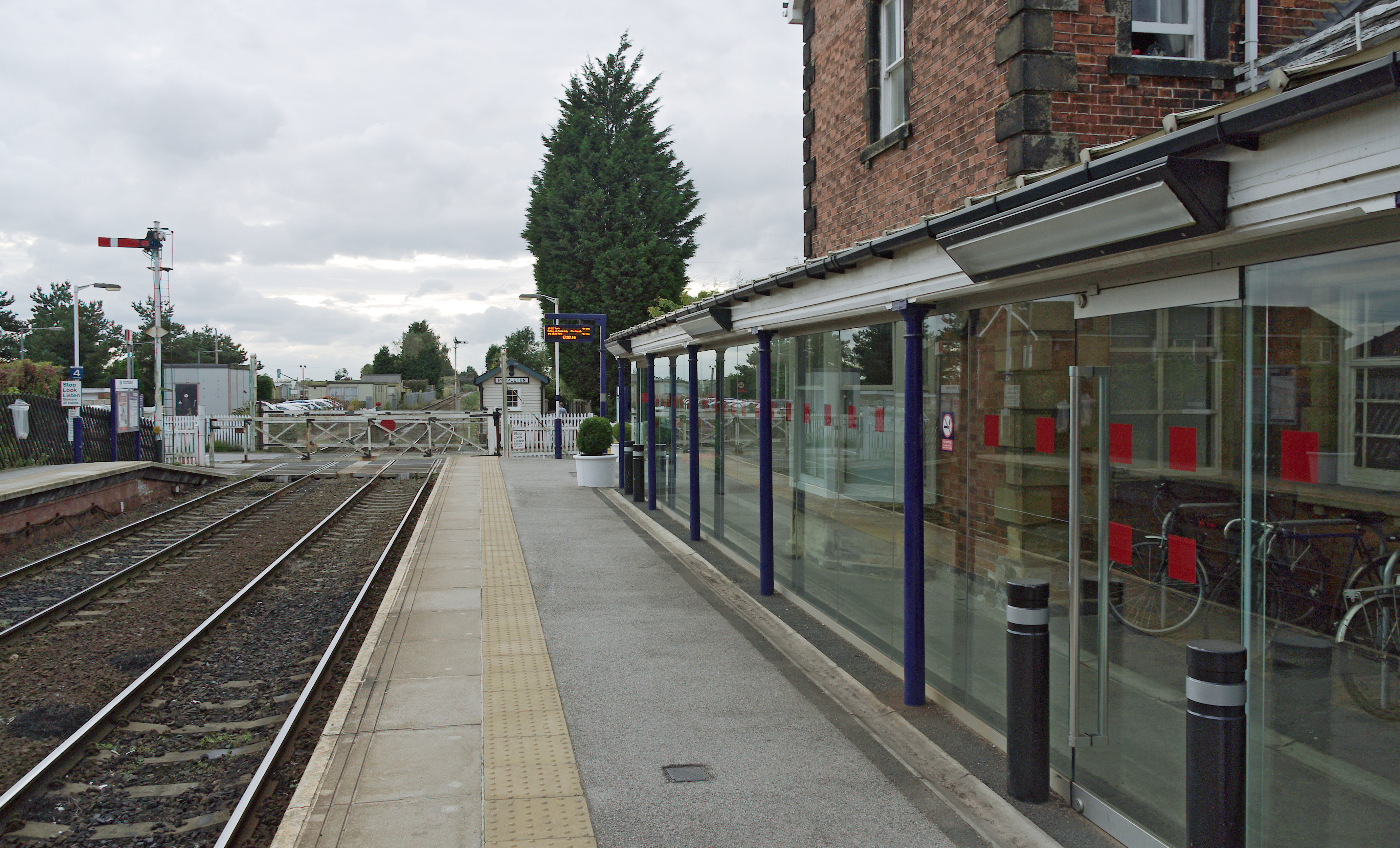 Poppleton railway station on the Harrogate Line in the outskirts of York, looking towards Harrogate.